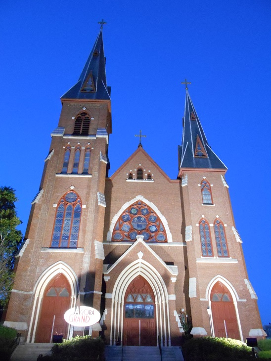 The Agora Grand Event Center, formerly St. Patrick's Church, in Lewiston, Maine